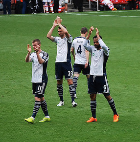 West Bromwich Albion player Chris Brunt (seen here on the left) applauding the away supporters at Arsenal's Emirates Stadium on 24 May 2015. Crop of File:WBA Team 2015-05-24.jpg by Barry Marsh